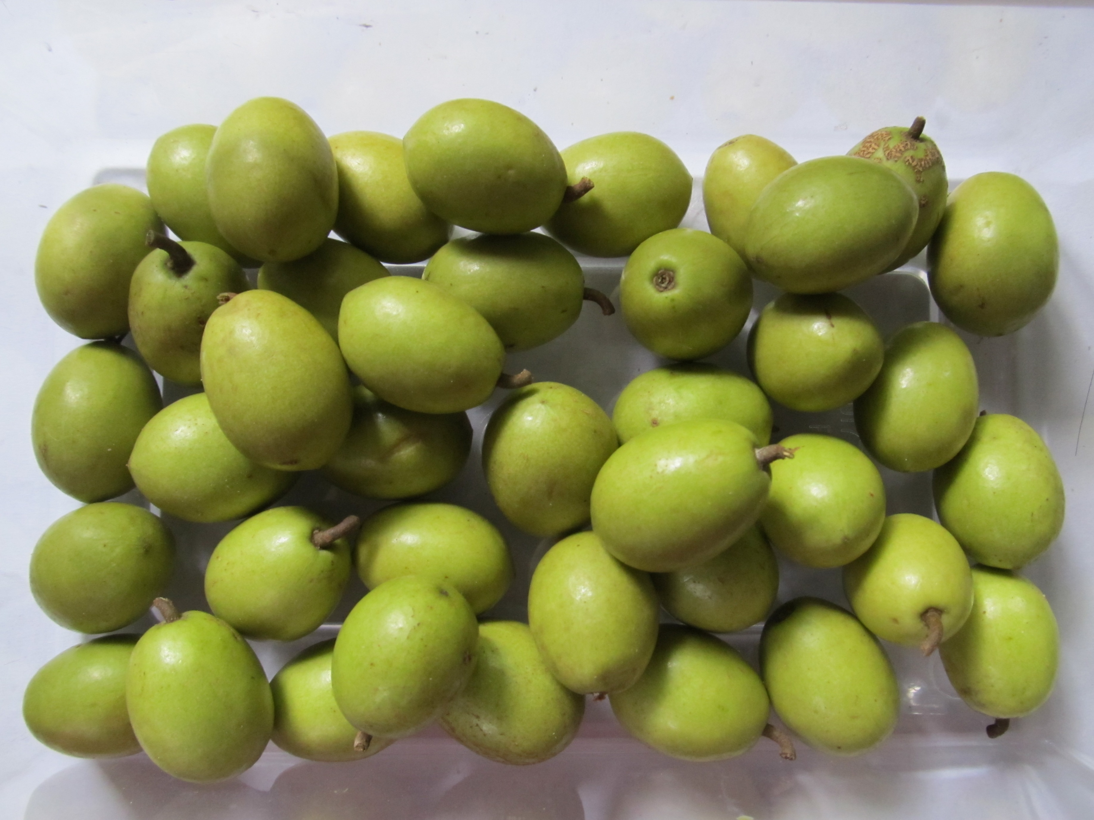 This is a photograph of some Ceylon Olive/ Veralu/ Elaeocarpus serratus fruits.